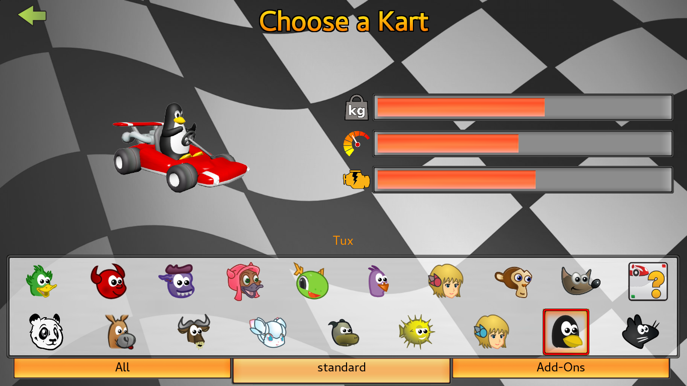 Taken from a build from Git, though basically the same as 0.9.3.